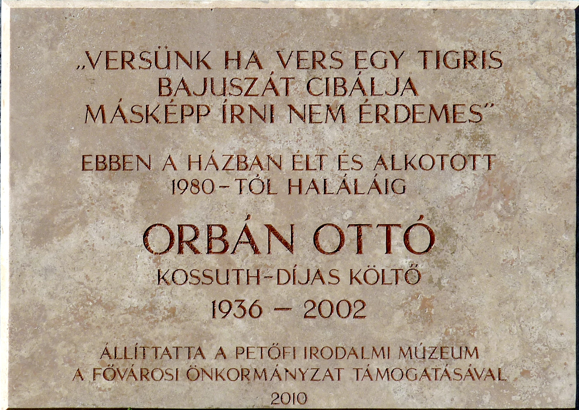 Commemorative plaque to Mr. Ottó Orbán (1936-2002) Kossuth Prize-winning Hungarian poet. It is affixed on the wall of his former home. Quote: “Our poem, if poem, tugs the mustache of a tiger. Another way to write it is worthless.” The plaque was unveiled March 27, 2013. (Budapest, District III, Bécsi Street No 88-90, bldg No 1)